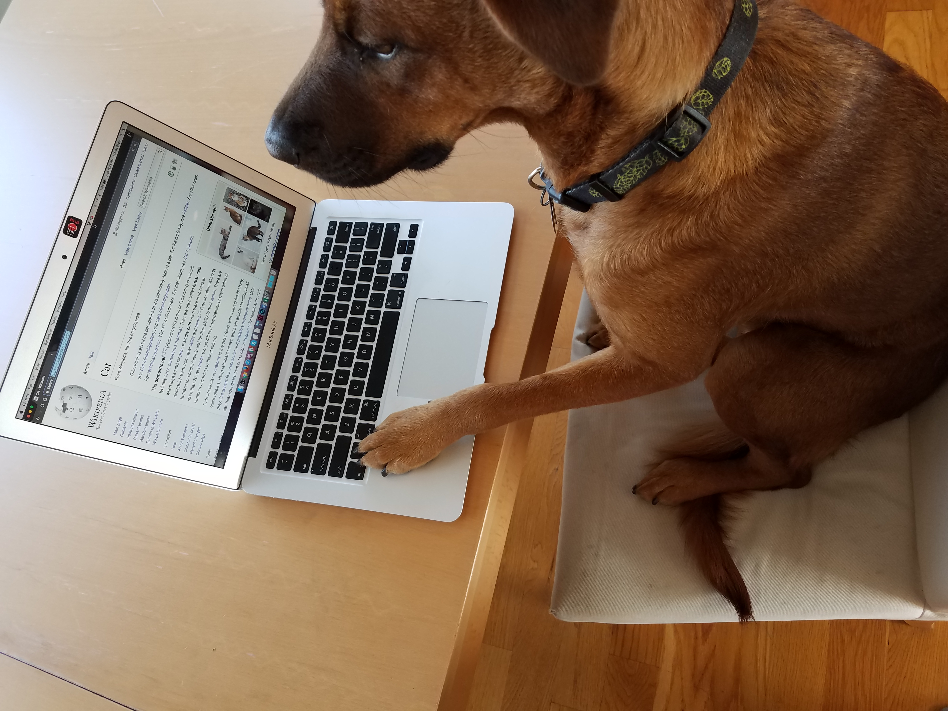 A dog peruses Wikipedia, illustrating the axiom, on the internet, nobody knows you're a dog.